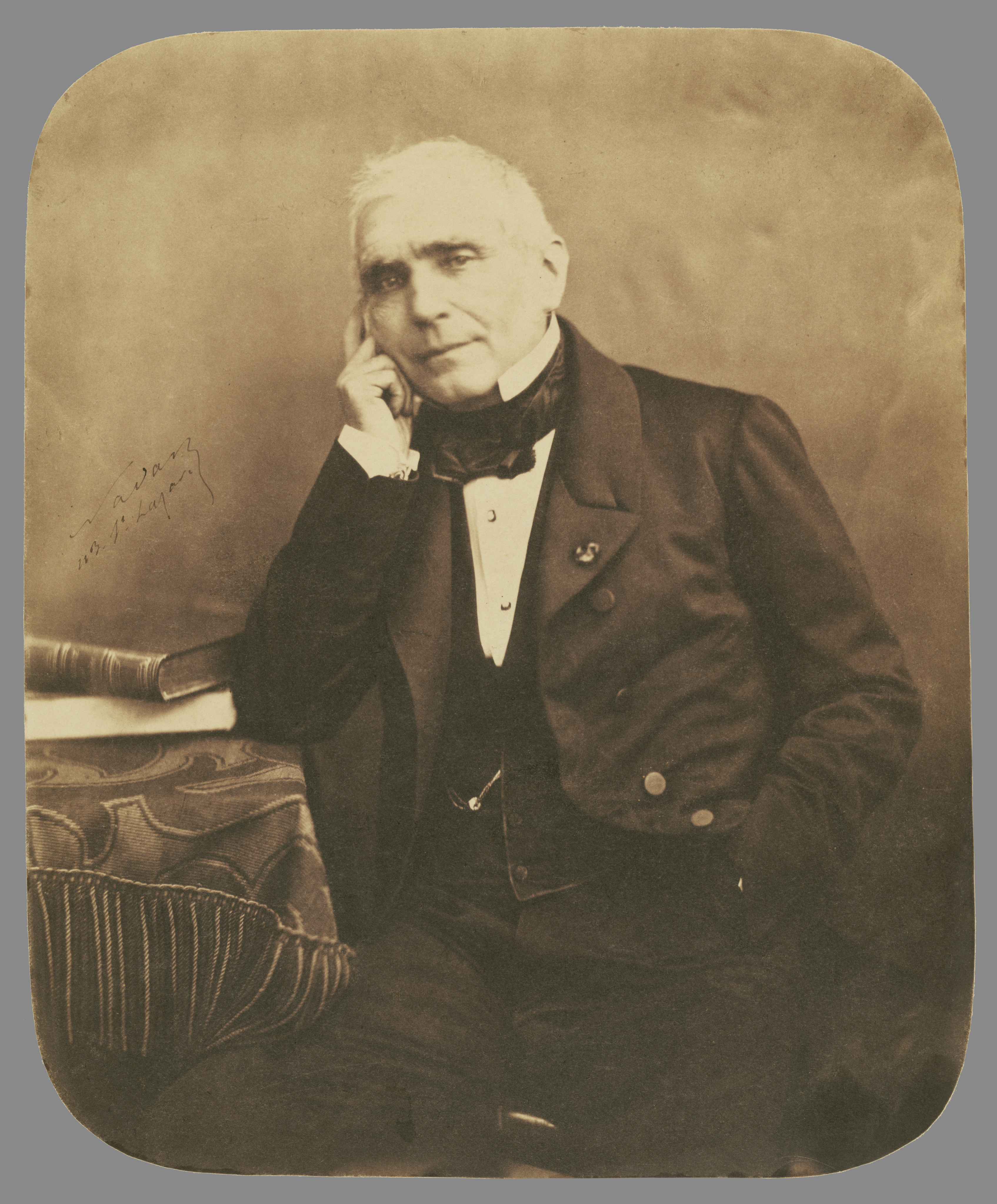 Eugène Scribe. Salted paper print. Image (rounded corners): 25.4 x 21 cm (10 x 8 1/4 in.) Mount: 42.5 x 31.1 cm (16 3/4 x 12 1/4 in.).